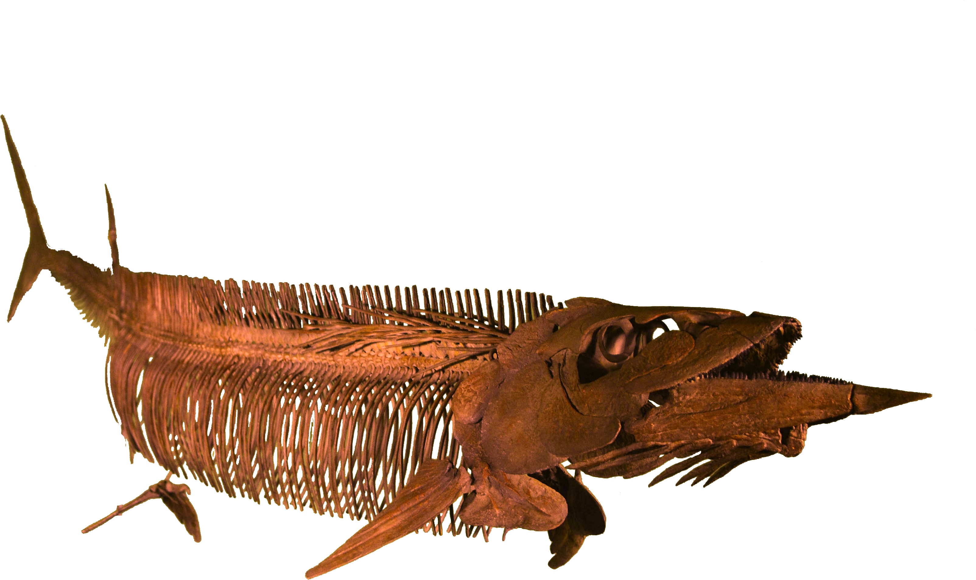 Saurodon leanus 3D reconstruction in the Rocky Mountain Dinosaur Resource Center, Woodland Park, Colorado.